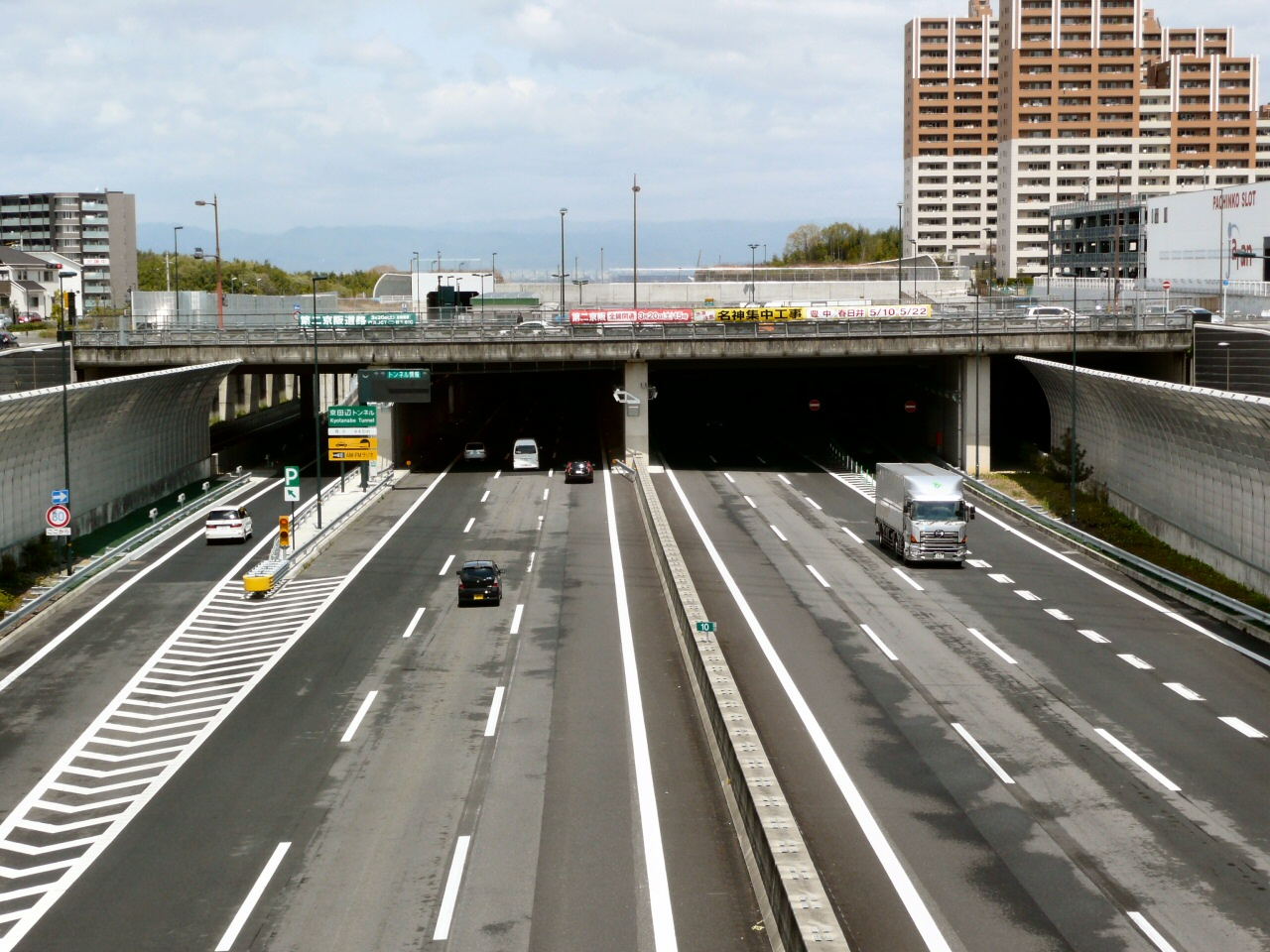 Kyotanabe tunnel of Daini-Keihan road